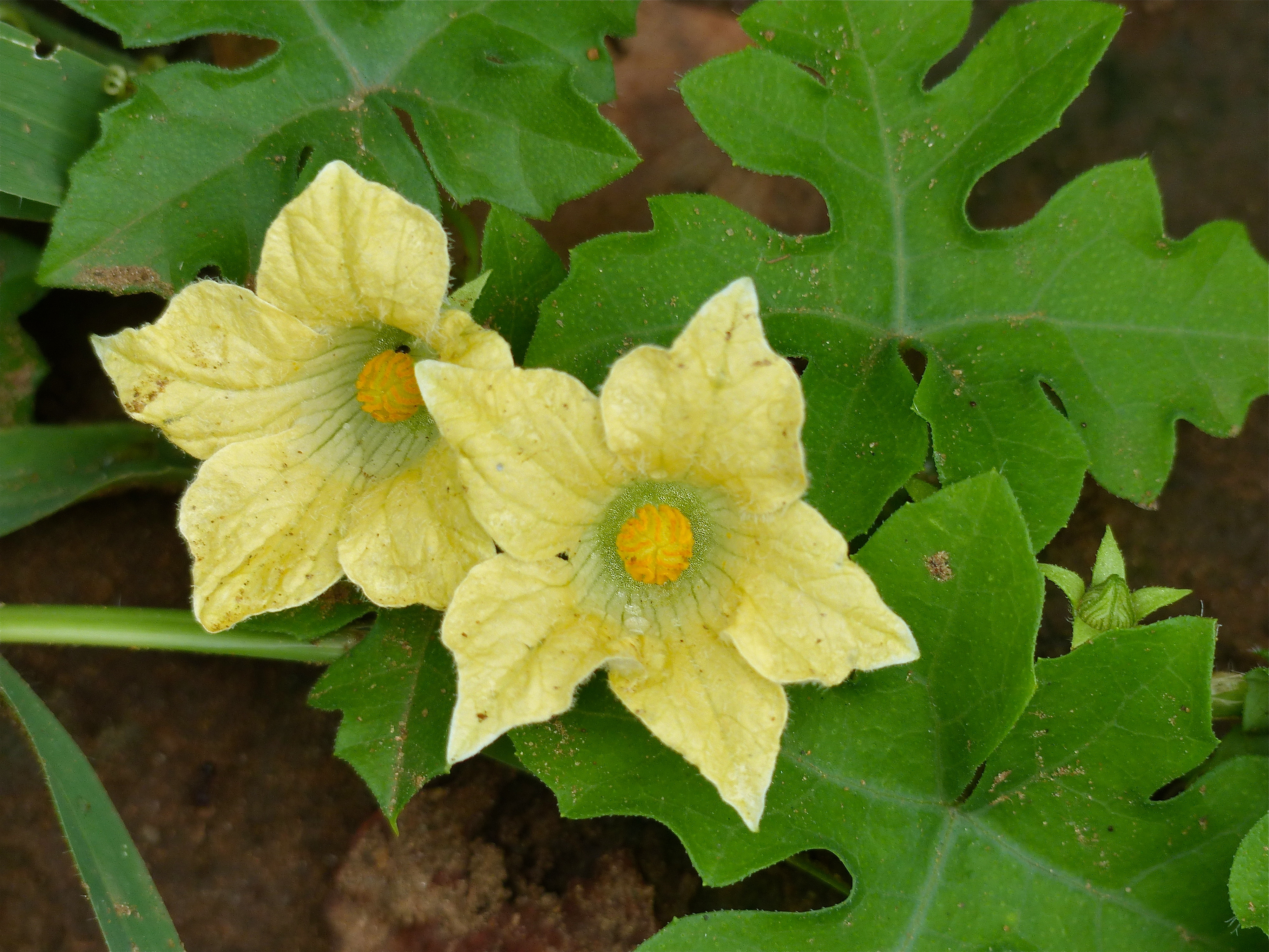 S95 Road North of Letaba, Kruger NP, SOUTH AFRICA